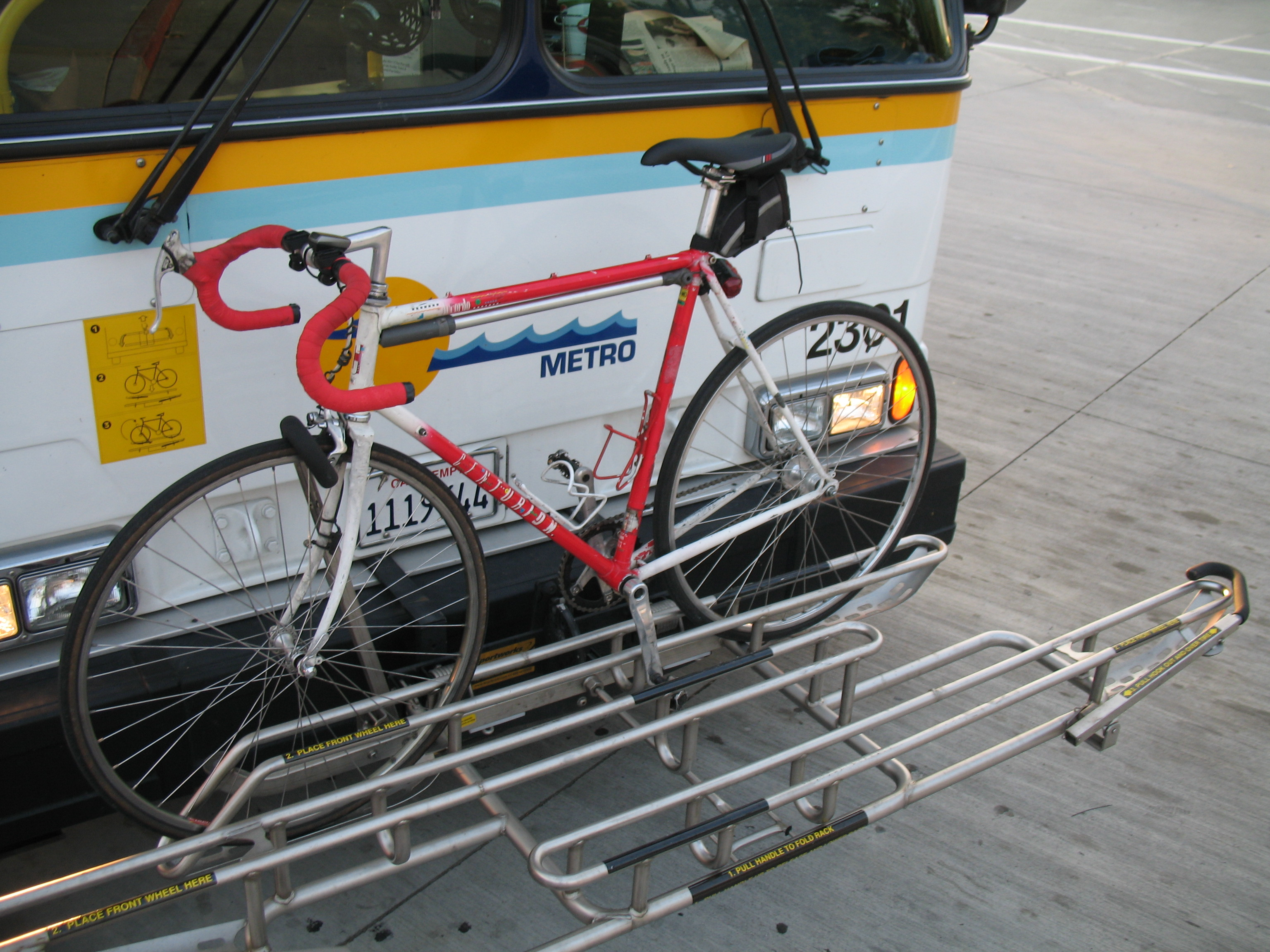 A rack for three bicycles on the front of the Highway 17 Express Santa Cruz express bus. The red bike is mine. It's a steel 1986 Centurion converted to fixed. Georgie -- one brake. Because it's a fixed gear (no freewheel) for a back brake I push backwards on the pedals. At high speed I'll hop up to stop the rear wheel then skid. And Nick -- the brake is on the front (even though the lever is on the right).